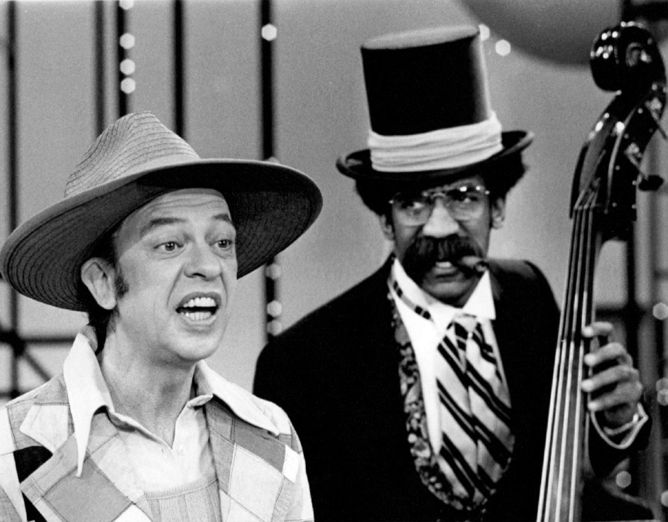 Photo from the television program The New Bill Cosby Show. In this skit, Don Knotts sings as Bill Cosby strums a bass.